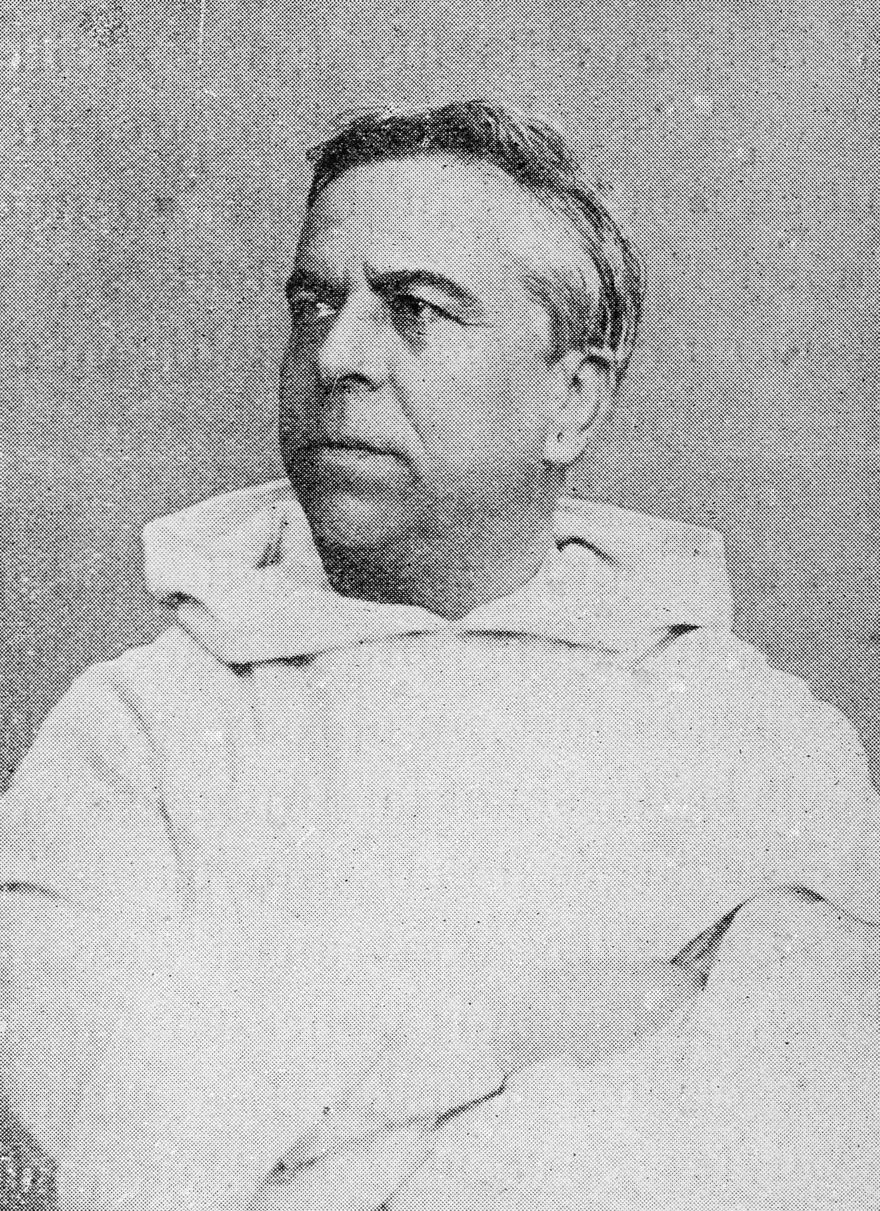 Book by Pierre de Coubertin